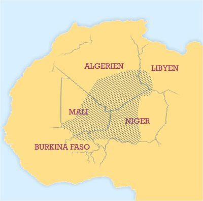 German version of map of Tuareg area.